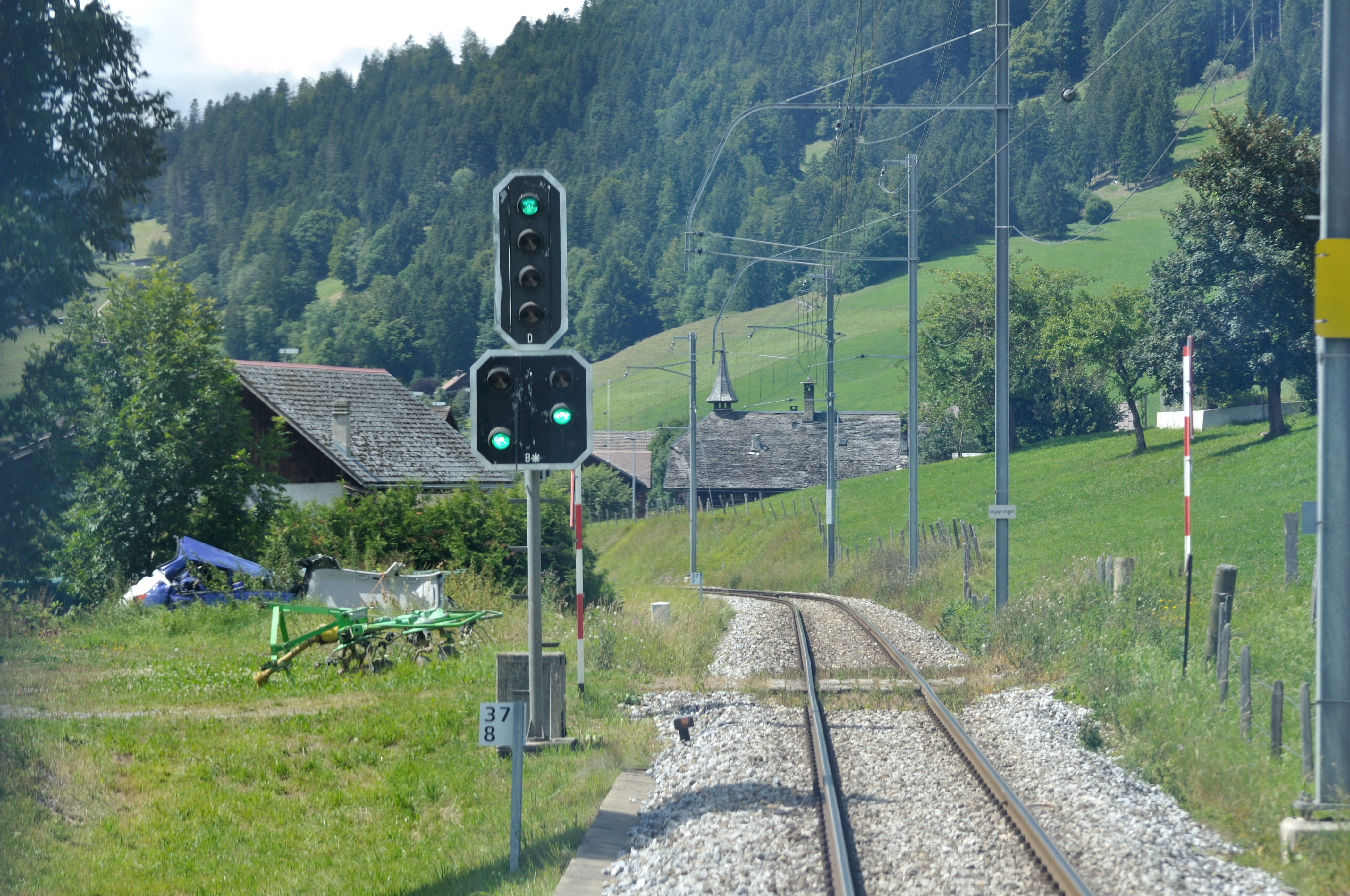 Switzerland, Vaud, impressions from the drivers cabin on the Chemin de fer Montreux Oberland bernois. For exact location see geodata.